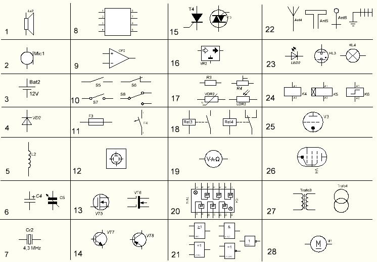 Electronic components